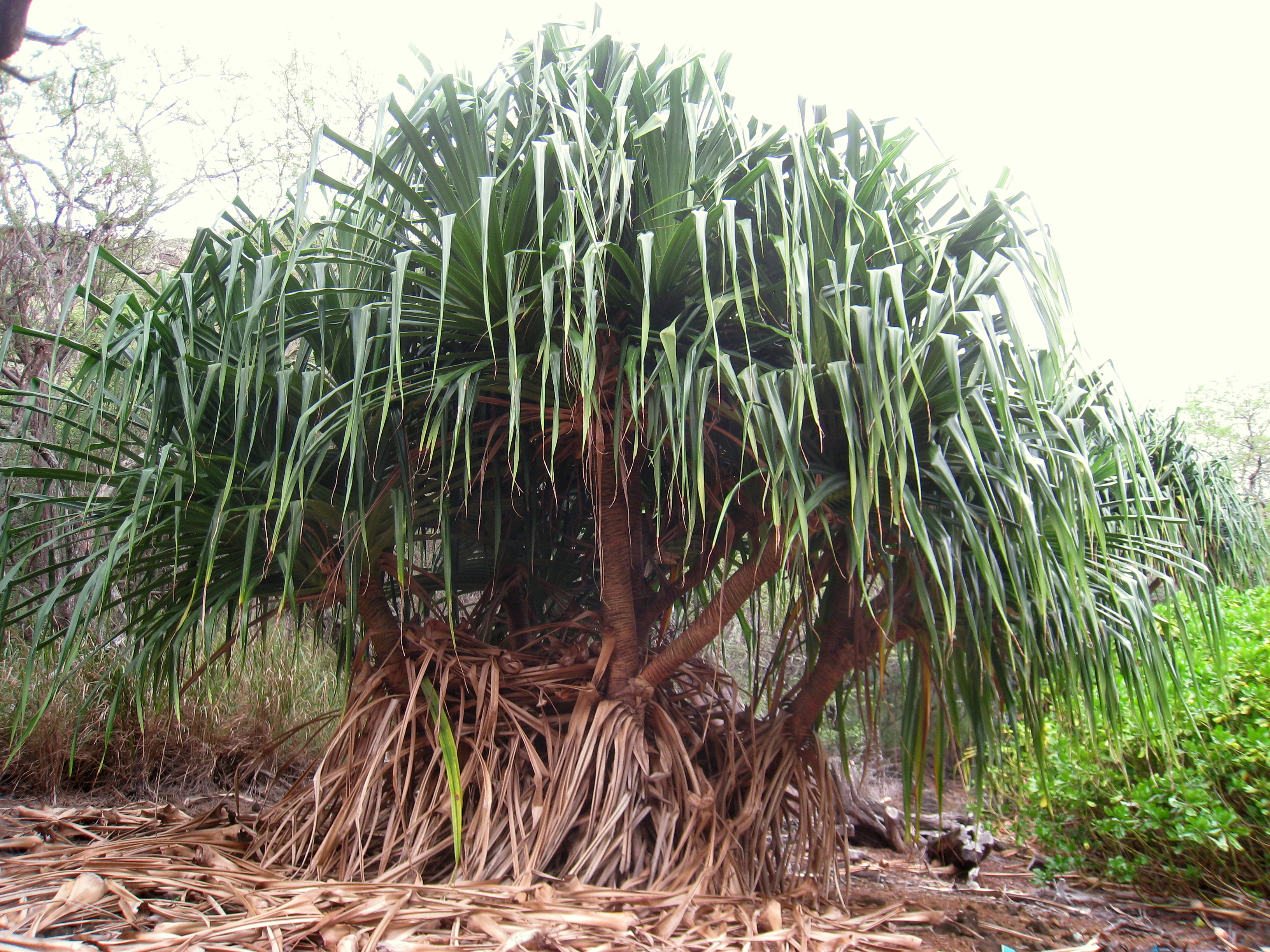 Pandanus jalvitensis in the Koko Crater Botanical Garden, Honolulu, Hawaii, USA.